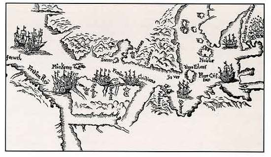 A map hand-drawn by Jens Munk in 1624 of the area between Cape Farewell (Greenland) and Hudson Bay, seen from the north